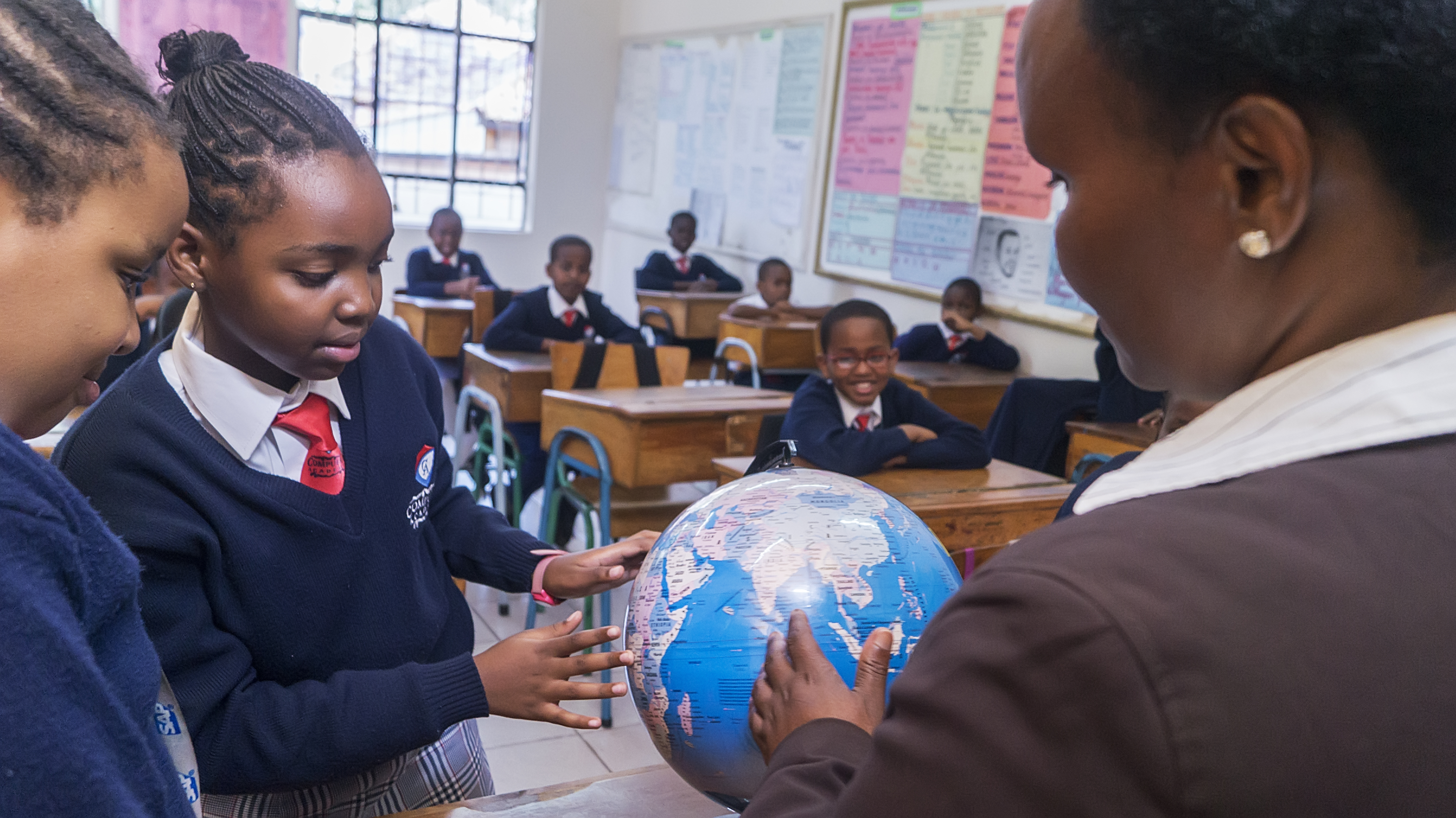 A teacher clarifies something on a map to her students This is an image of "African people at work" from Kenya